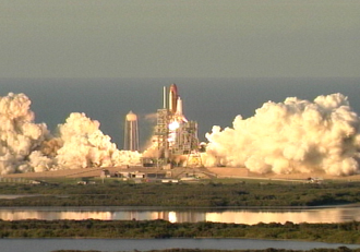 Launch of Space Shuttle Atlantis on STS-117